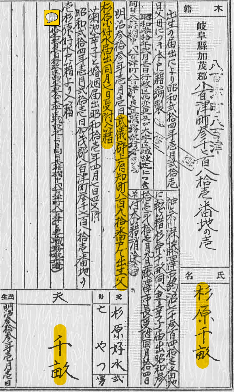 Birth registry details.